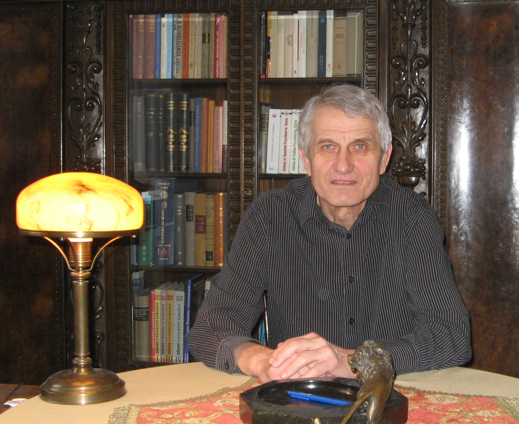 Czech psychiatrist and sexologist Prof. MUDr. Jiří Raboch, DrSc.